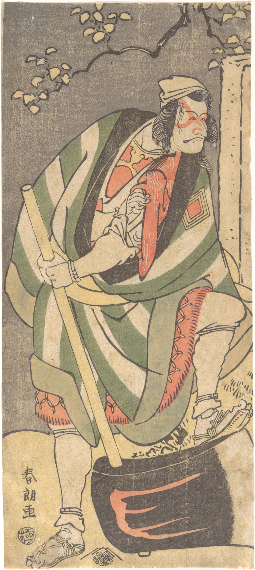 Ichikawa Ebizō as the Saint Monkaku Disguised as a Bandit, 1791 print of kabuki actor by Hokusai, signed "Shunrō"